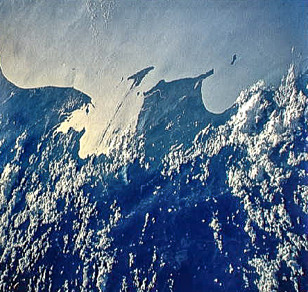 NASA image , showing part of West Coast of Borneo with Brunei Bay (left) and Kimanis Bay (right)